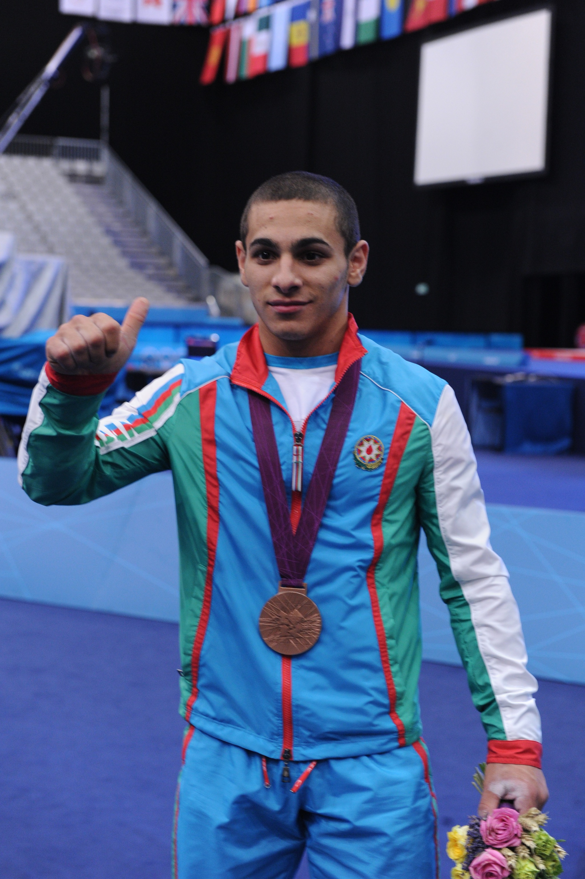 Azerbaijani athlete Valentin Hristov won bronze in the weightlifting competition of the 2012 London Olympic Games